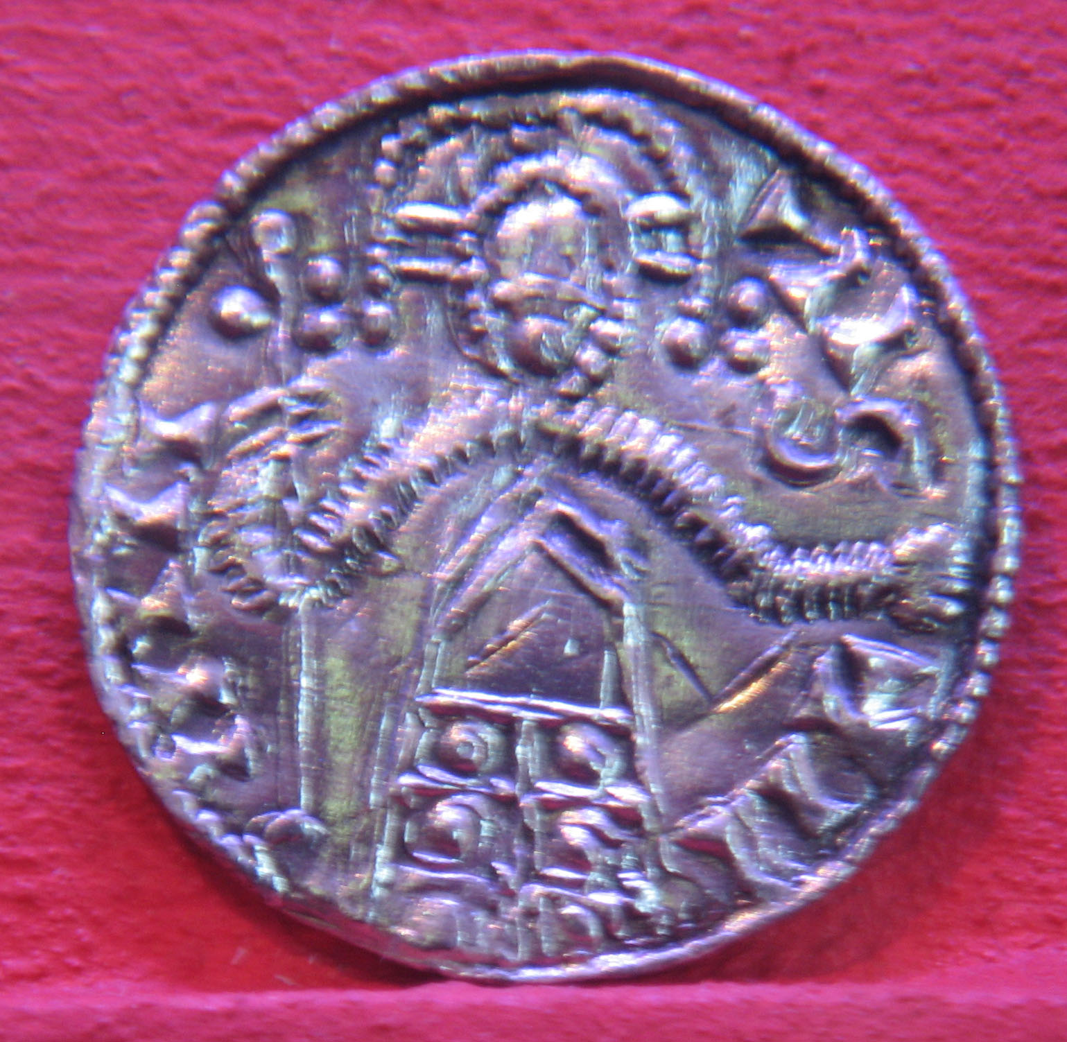 Coin minted for Sweyn II of Denmark, Sven Estridsson (1020-1074). King of Denmark 1047-1074. Photo taken at Lunds universitets historiska museum by the uploader.